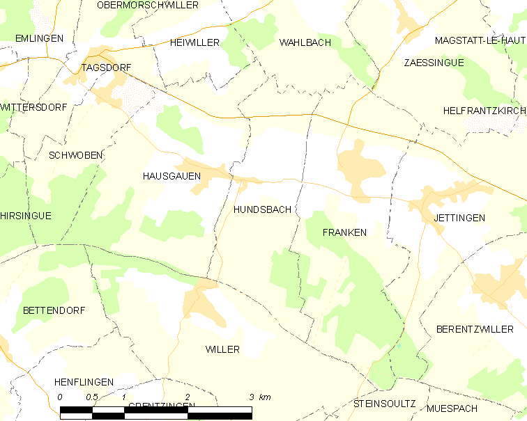 Map of French municipality